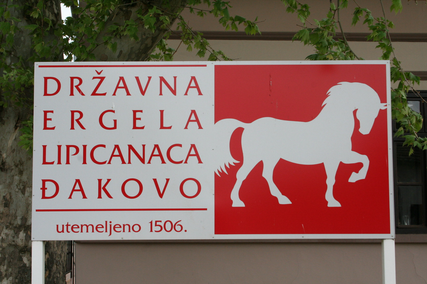 State Stud Farm in Đakovo (Croatia), location Ivandvor